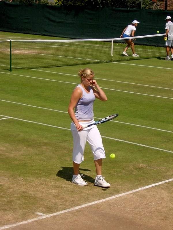 Kim remains very casual throughout the practice session.